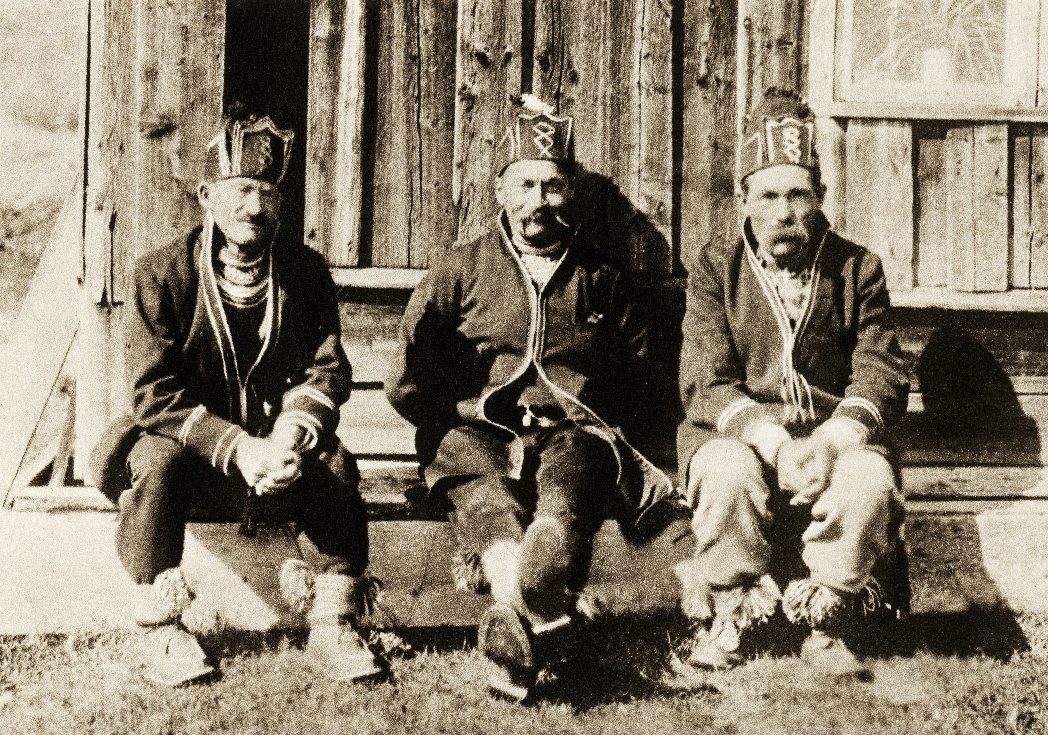 Sami men in Vålådalen in Jämtland, Sweden. Laplanders. Read more in Saamiblog